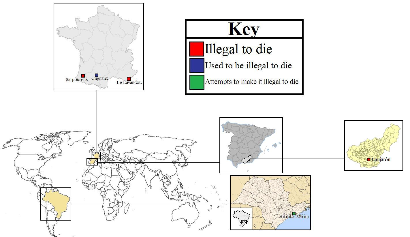 Map showing places where it is illegal to die, where it used to be illegal to die, and where there are attempts to make it illegal to die. Includes GNU free licensed images Image:Carte France geo.png, Image:SaoPaulo Municip BiritibaMirim.svg, Image:LocationLanjarón.png, and Image:Localización provincia de Granada.png.